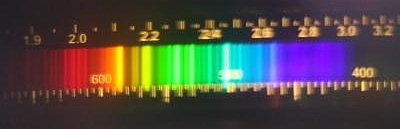 Spectrum of a metal halide lamp